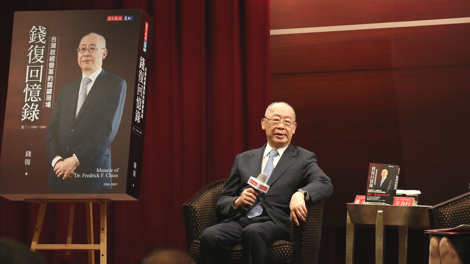 Memoir of Dr. Fredrick F. Chien 05-12-20 VOA